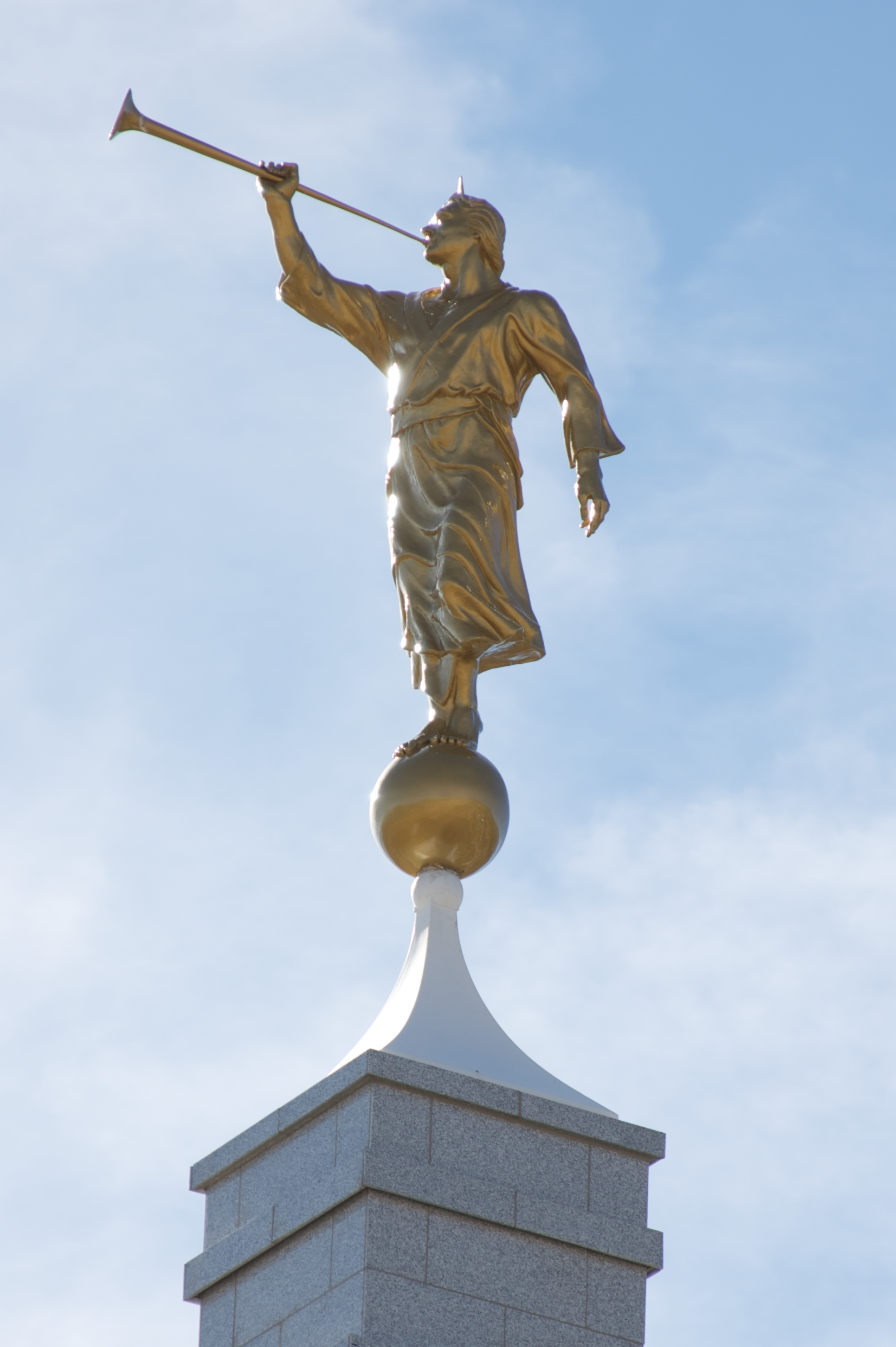 The eastward facing statue of the angel Moroni atop the Reno Nevada Temple of The Church of Jesus Christ of Latter-day Saints.